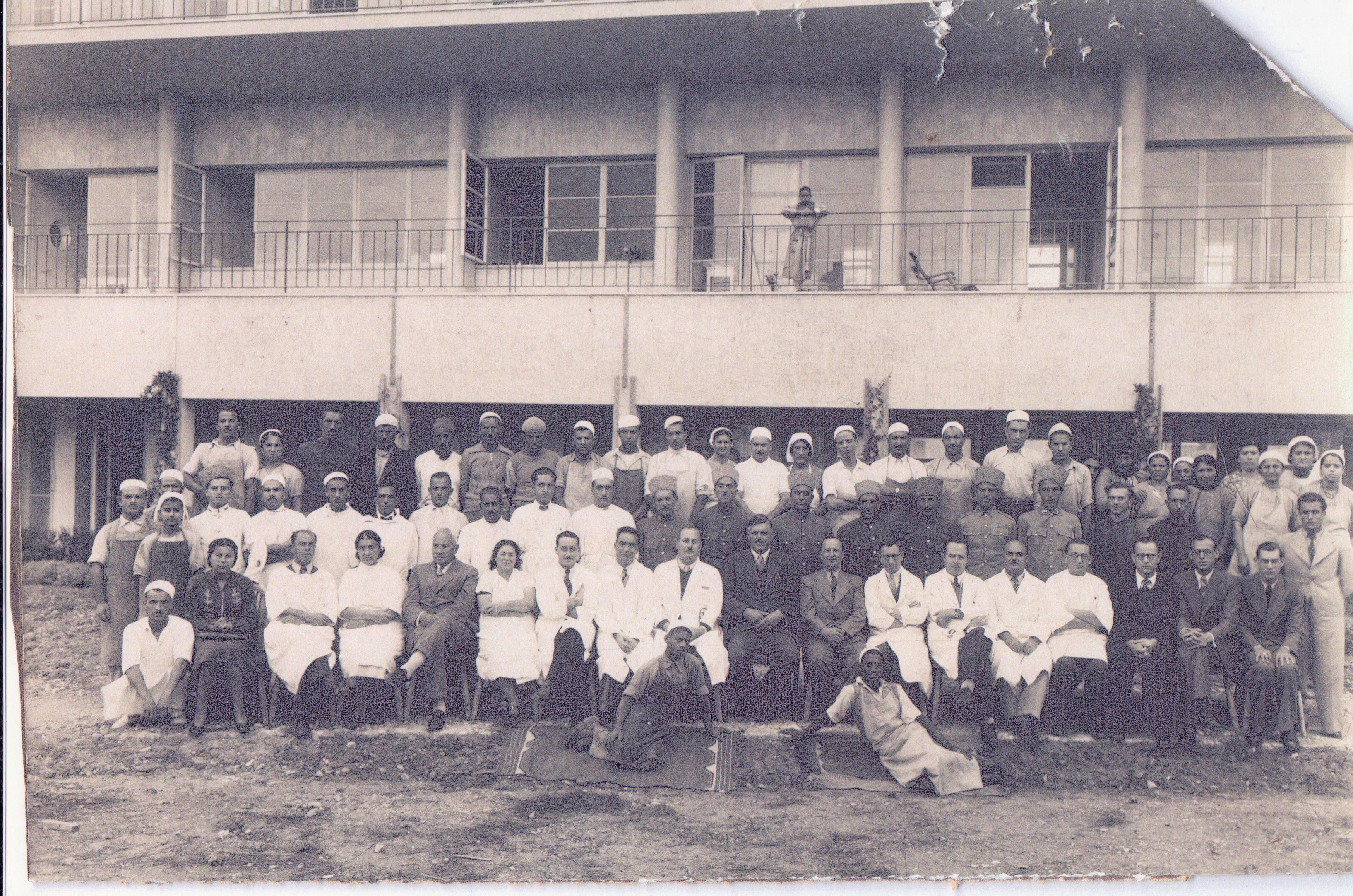 Staff of Haifa Hospital, circa 1939; Centre: Director, Dr John Macqueen.